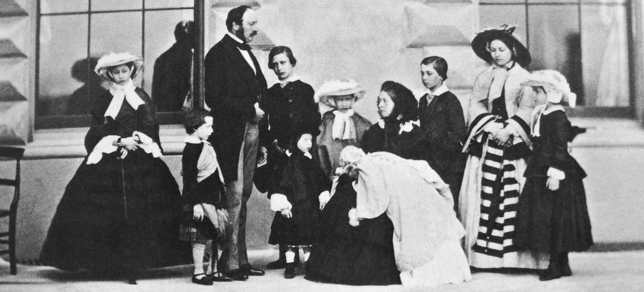 Prince Albert, Queen Victoria and their nine children. From left to right: Alice, Arthur (later Duke of Connaught), The Prince Consort (Albert), The Prince of Wales (later Edward VII), Leopold (later Duke of Albany, in front of the Prince of Wales), Louise, Queen Victoria with Beatrice, Alfred (later Duke of Edinburgh), The Princess Royal (Victoria) and Helena